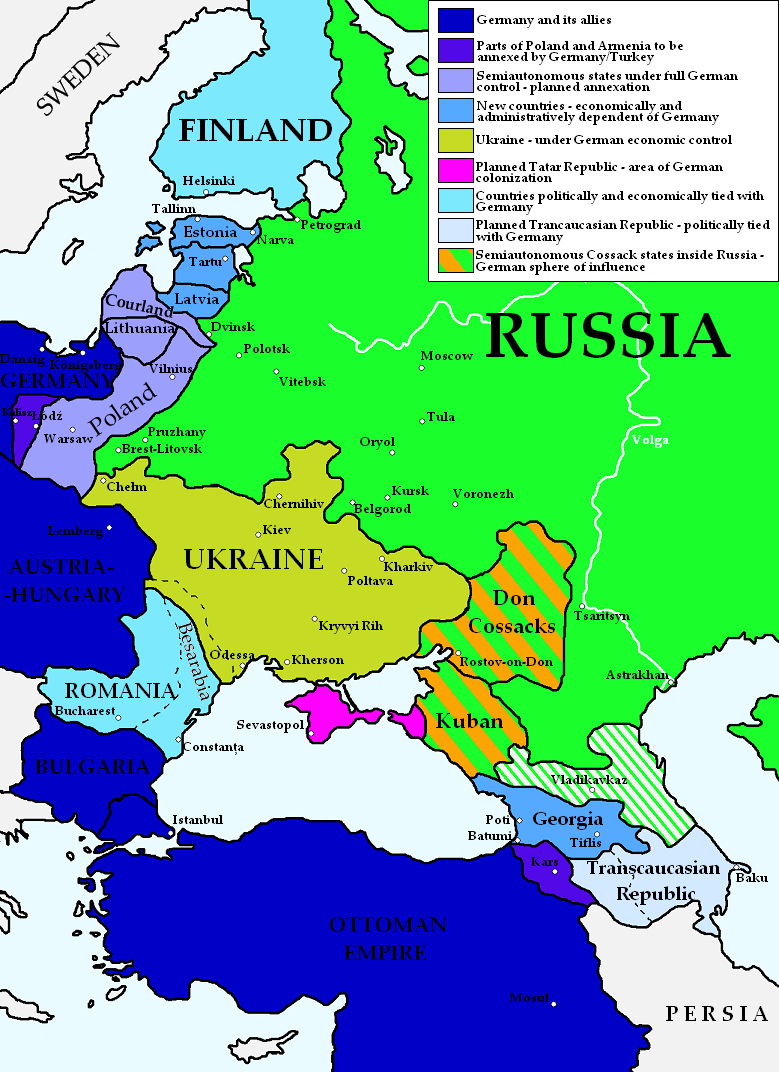 Map of German plans for a new political order in Central and Eastern Europe ("The Mitteleuropa Plan") after the Treaty of Brest-Litovsk of February 9th, 1918, Treaty of Brest-Litovsk of March 3rd, 1918 and Treaty of Bucharest of May 7th, 1918.